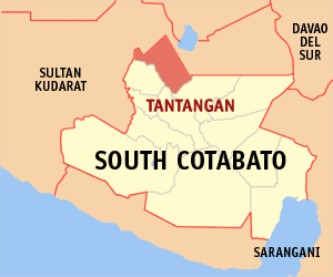 Map of the South Cotabato showing the location of Tantangan